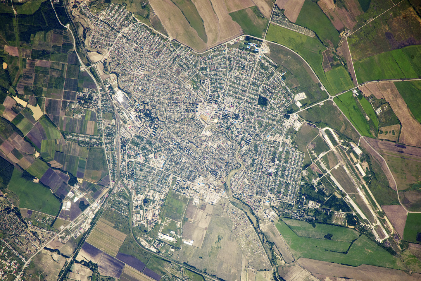 KRYMSK, KRASNODAR REGION